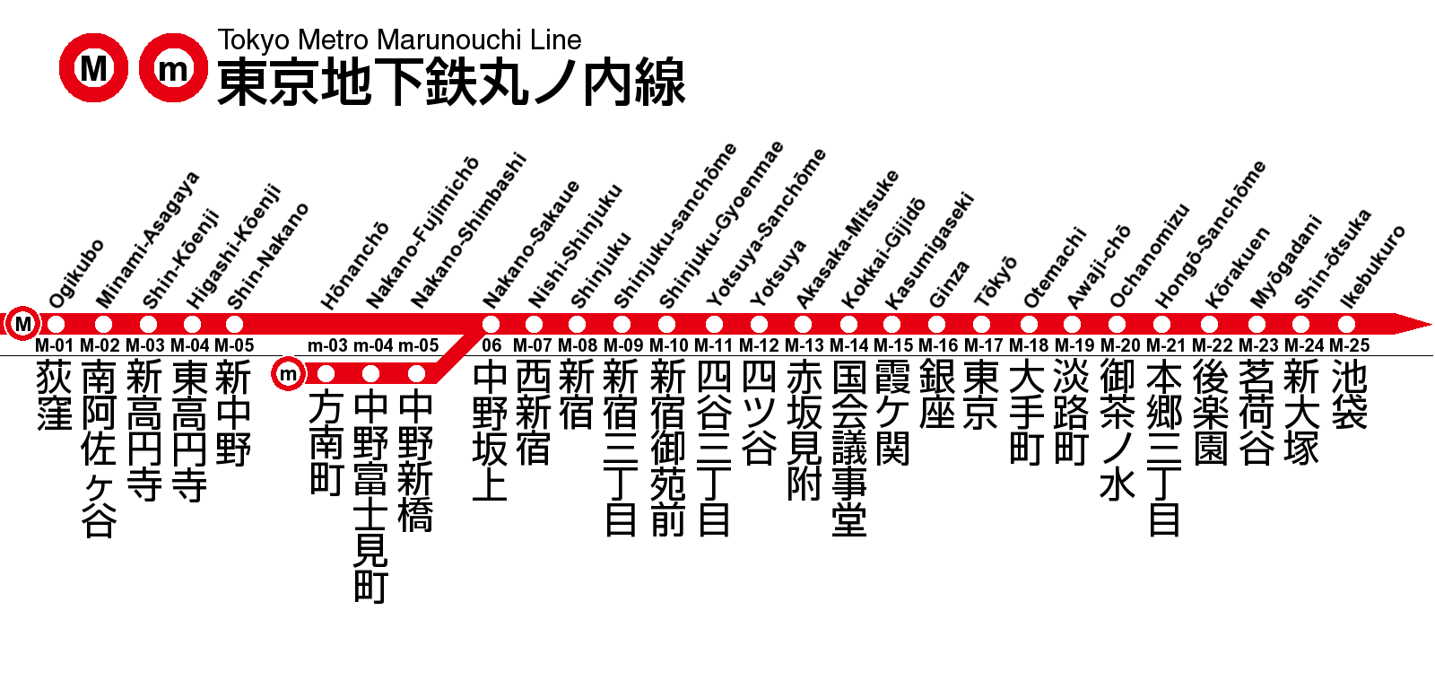 Tokyo metro Marunouchi line Route map